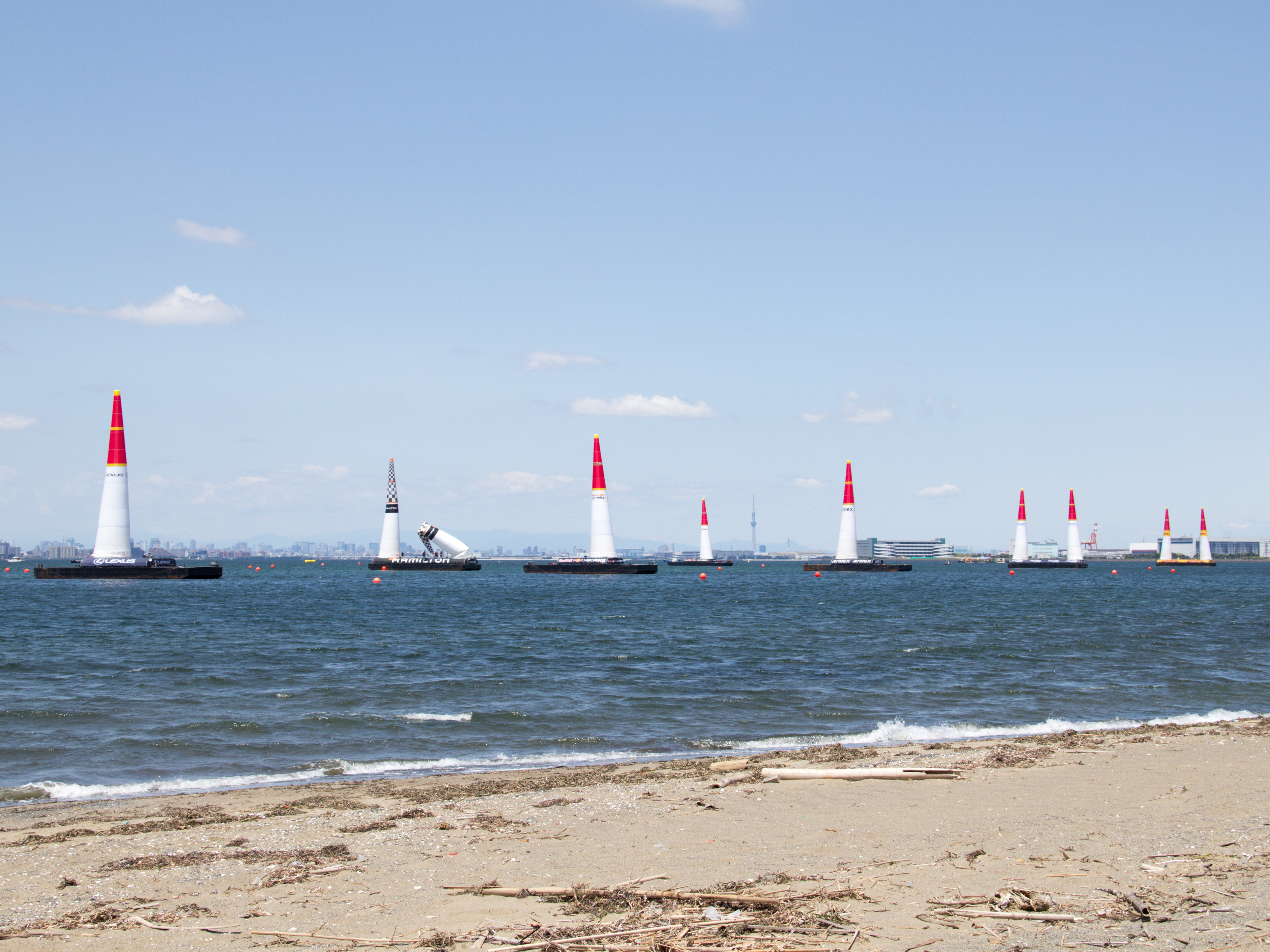 2017 Red Bull Air Race of Chiba Race Track